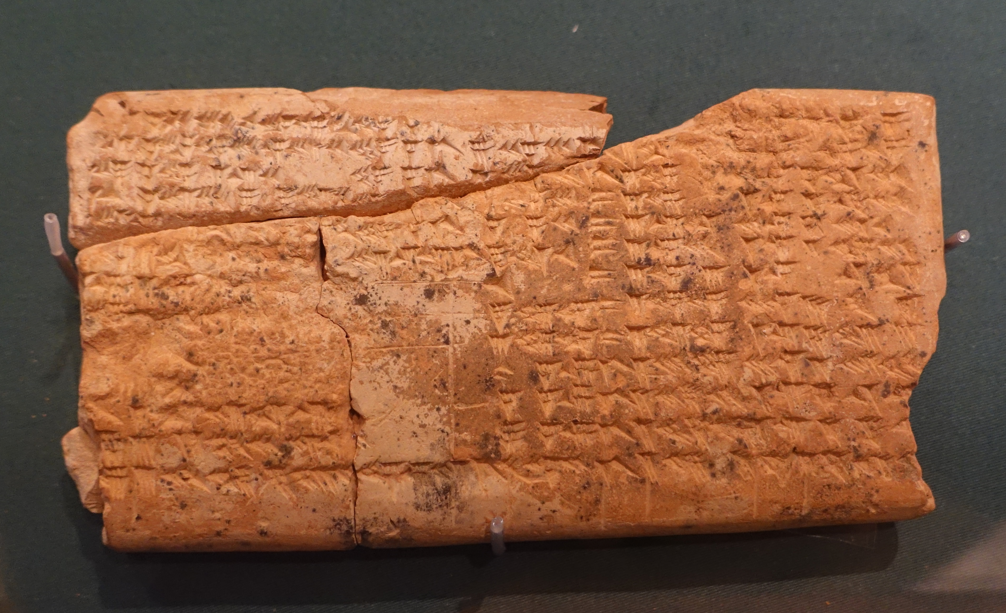 Exhibit in the Oriental Institute Museum, University of Chicago, Chicago, Illinois, USA. This work is old enough so that it is in the public domain.